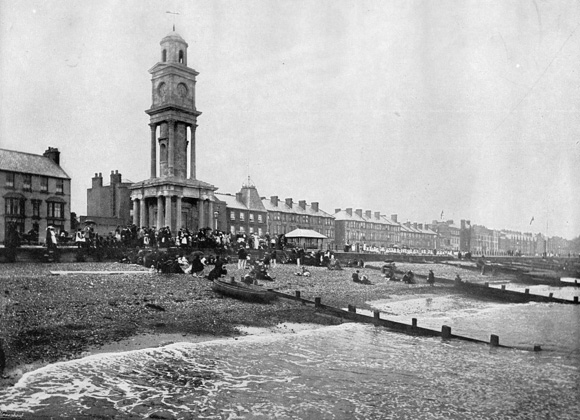 Clock Tower in Herne Bay, Kent, England, 1895.